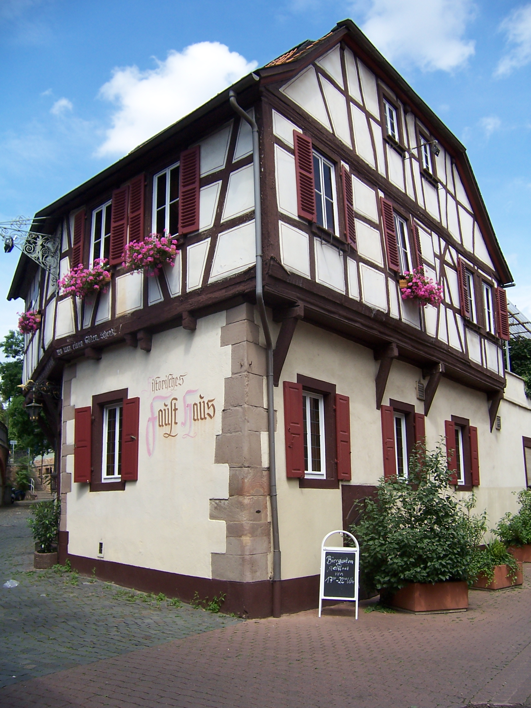 Historic Faust house in Bad Kreuznach